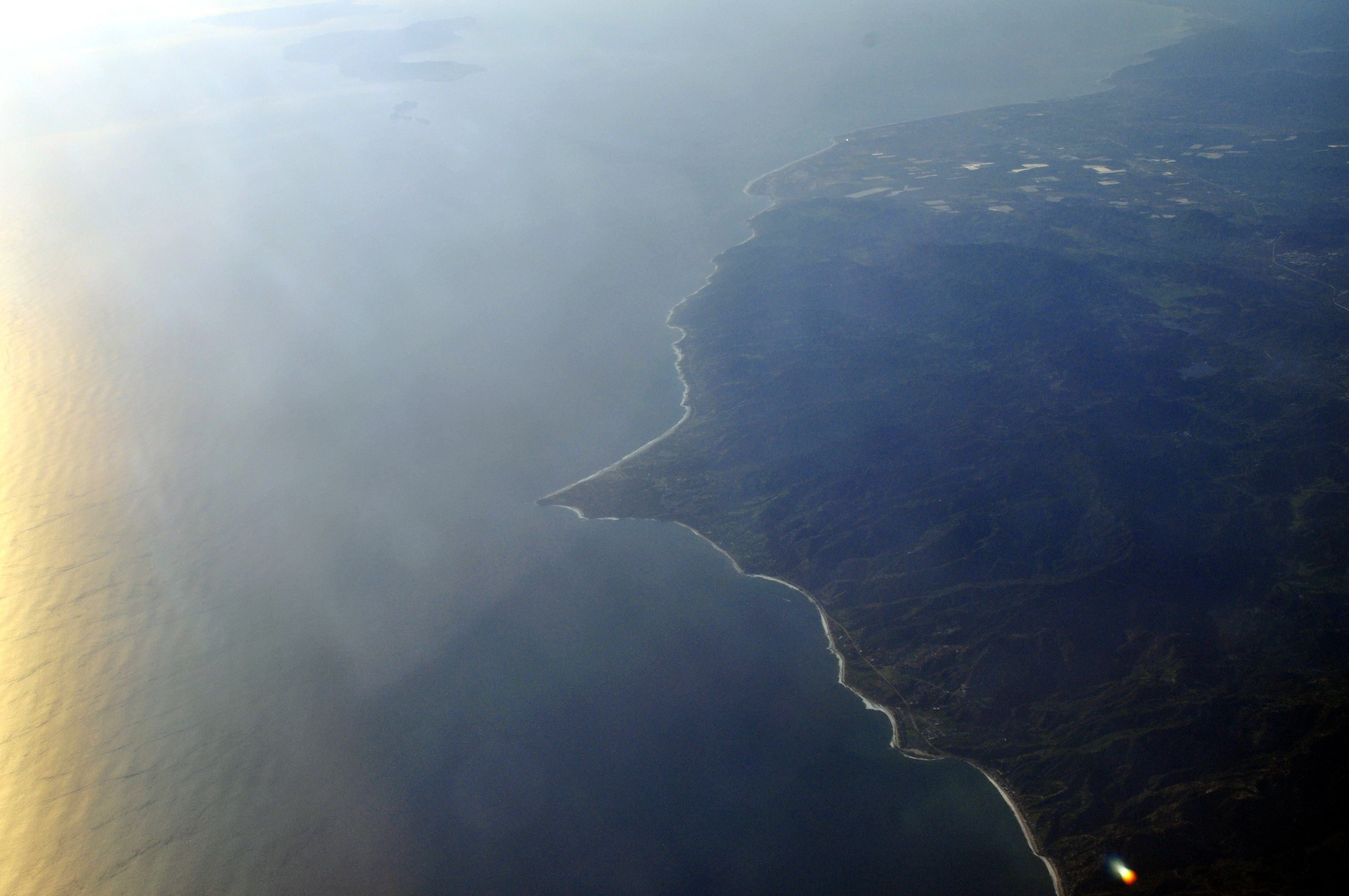 Aerial photograph of Malibu, California, U.S., from the east, around sunset.